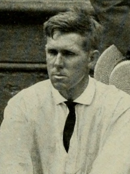 Crocker Land Expedition. Chairmen of Committees and Staff. Upper row, left to right: Henry Fairfield Osborn, Edmund Otis Hovey, Donald B. MacMillan Lower row, left to right: Harrison J. Hunt, Maurice Cole Tanquary, W. Elmer Ekblaw, Fitzhugh Green, Jerome Lee Allen. Title: The American Museum journal Year: c1900-(1918) (c190s) Authors: American Museum of Natural History Subjects: Natural history Publisher: New York : American Museum of Natural History